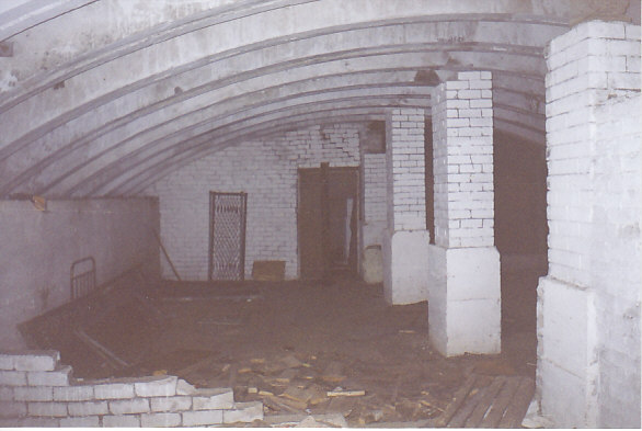 Fortification used as kazarm, Baltic Military District